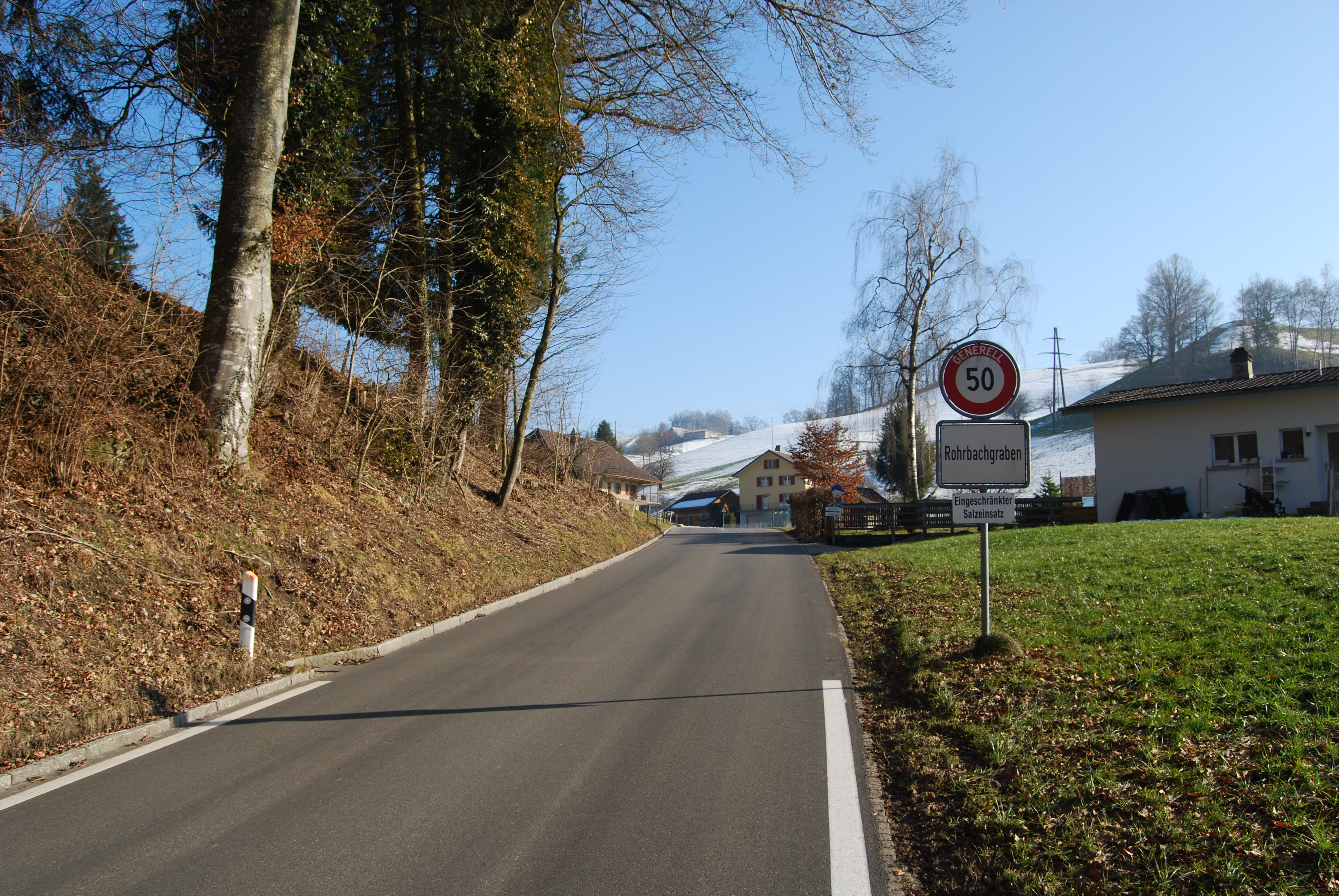 Rohrbachgraben, canton of Bern, SwitzerlandEsperanto: Rohrbachgraben, Kantono Berno, Svislando